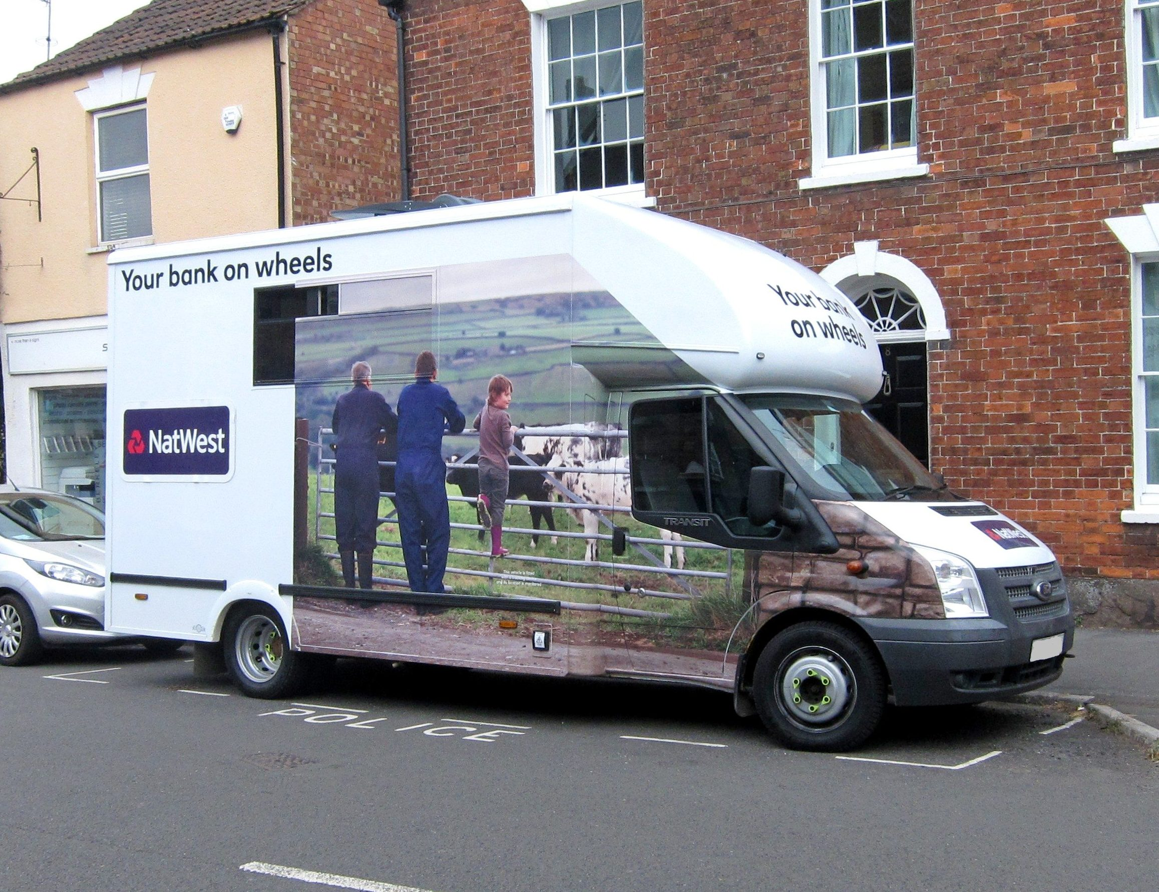 NatWest Ford Transit mobile banking van, ready for business, in the small town of Berkeley, Gloucestershire, England. At the time of writing (May 2019) the van visits Berkeley for two hours each Thursday following the closure of the town's NatWest branch in 2015.